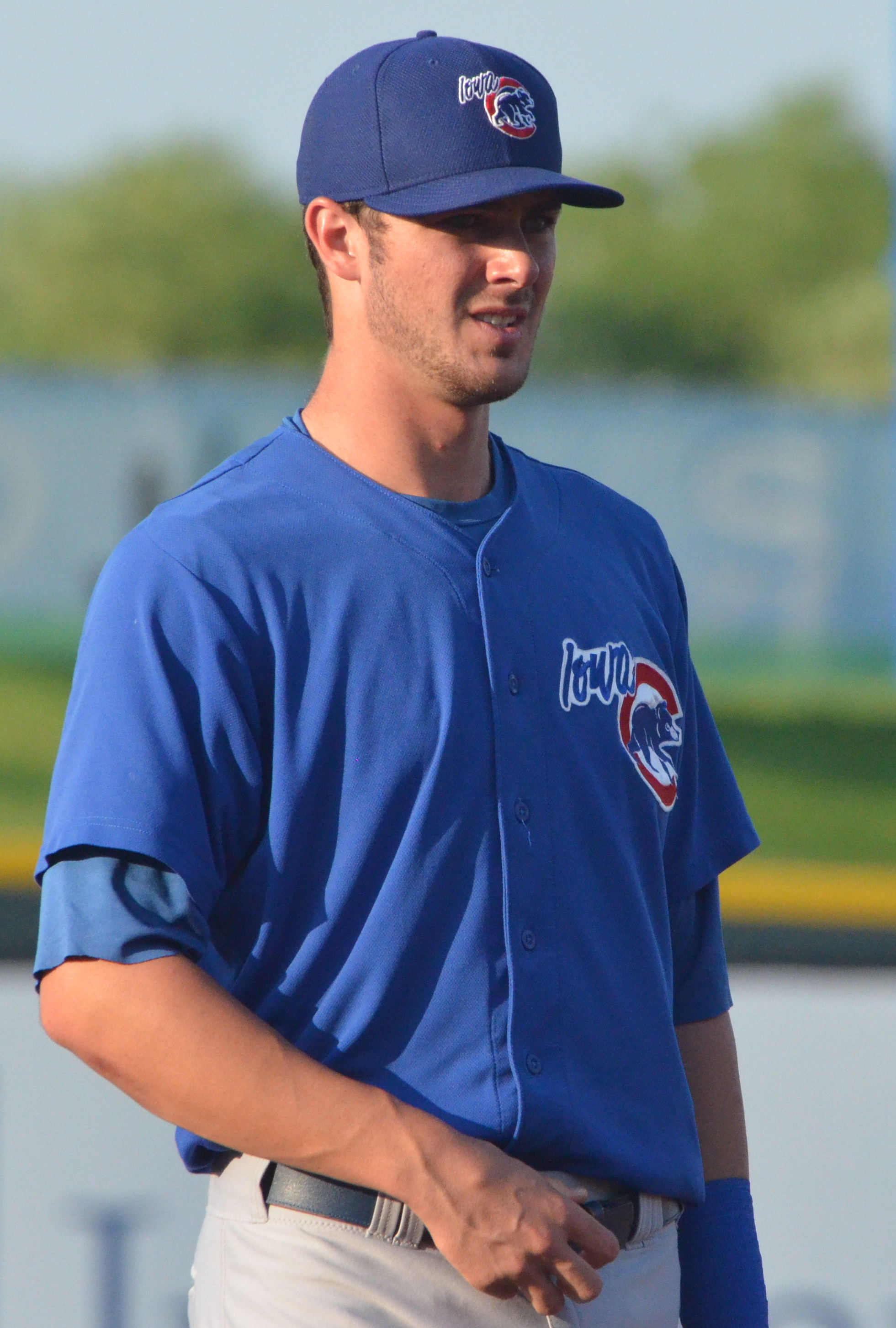 Kris Bryant with the Iowa Cubs in 2014